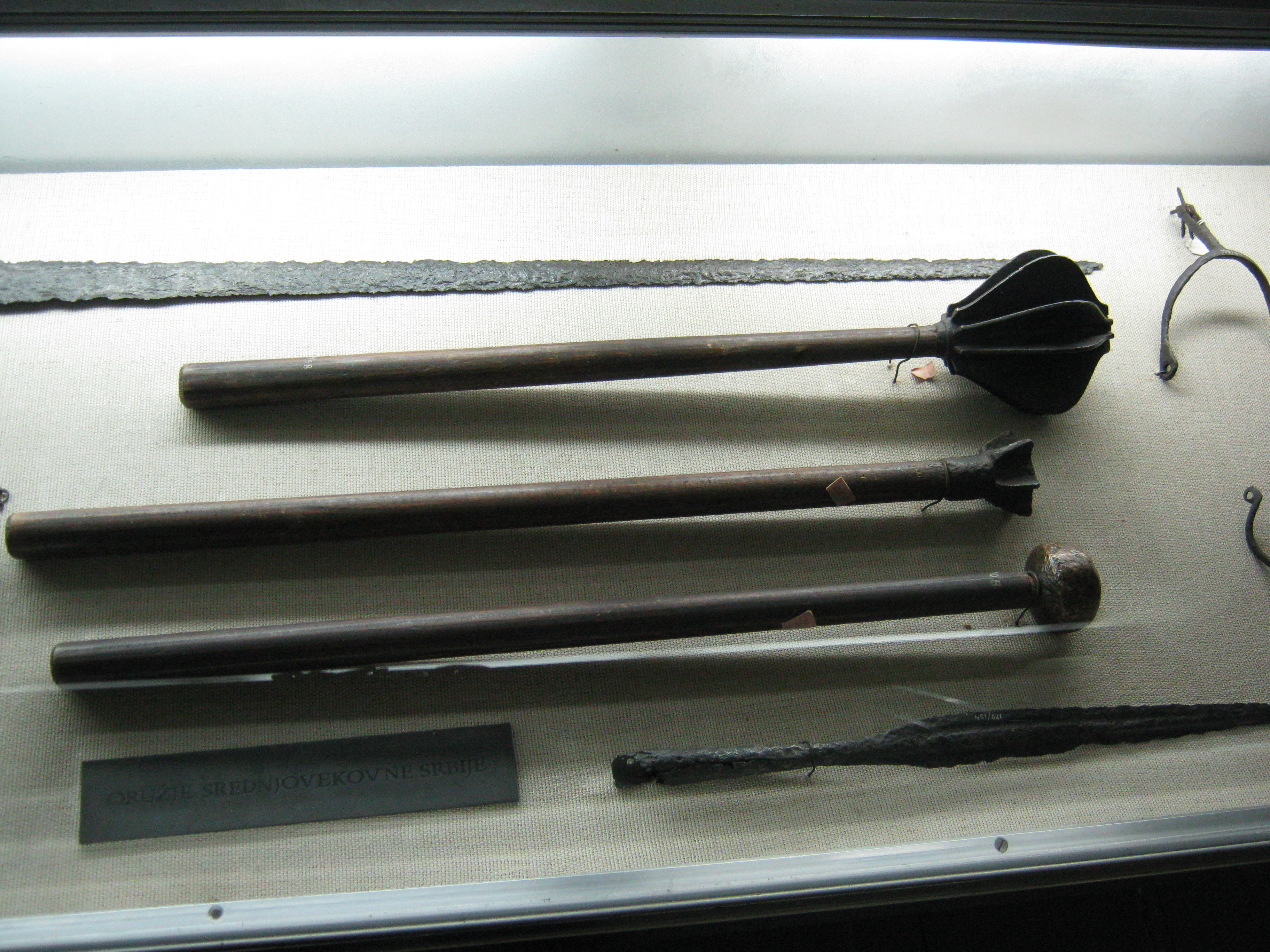 Serbian medieval weapons Photo taken in:Military museum Belgrade